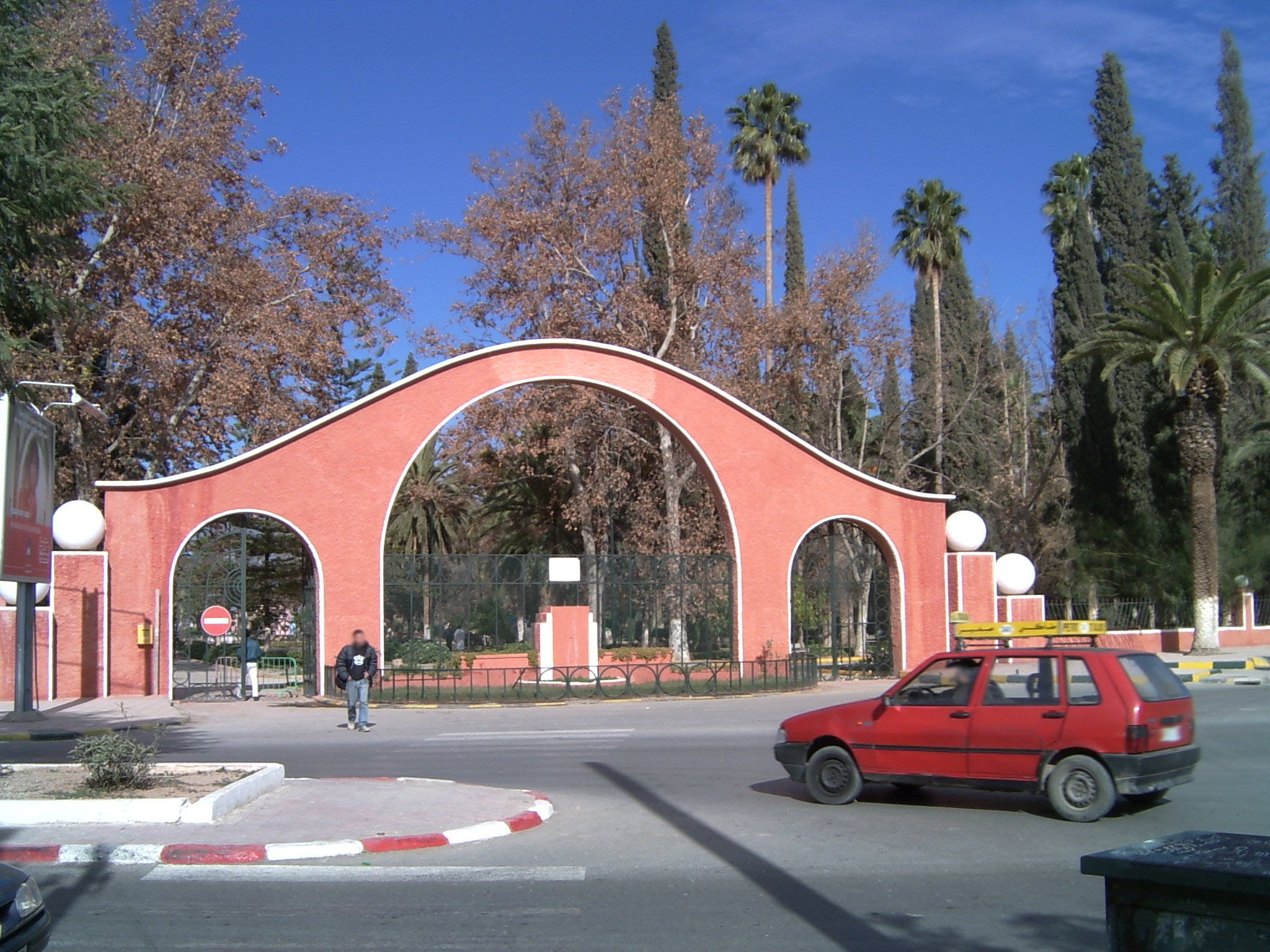 Parc d'Oujda